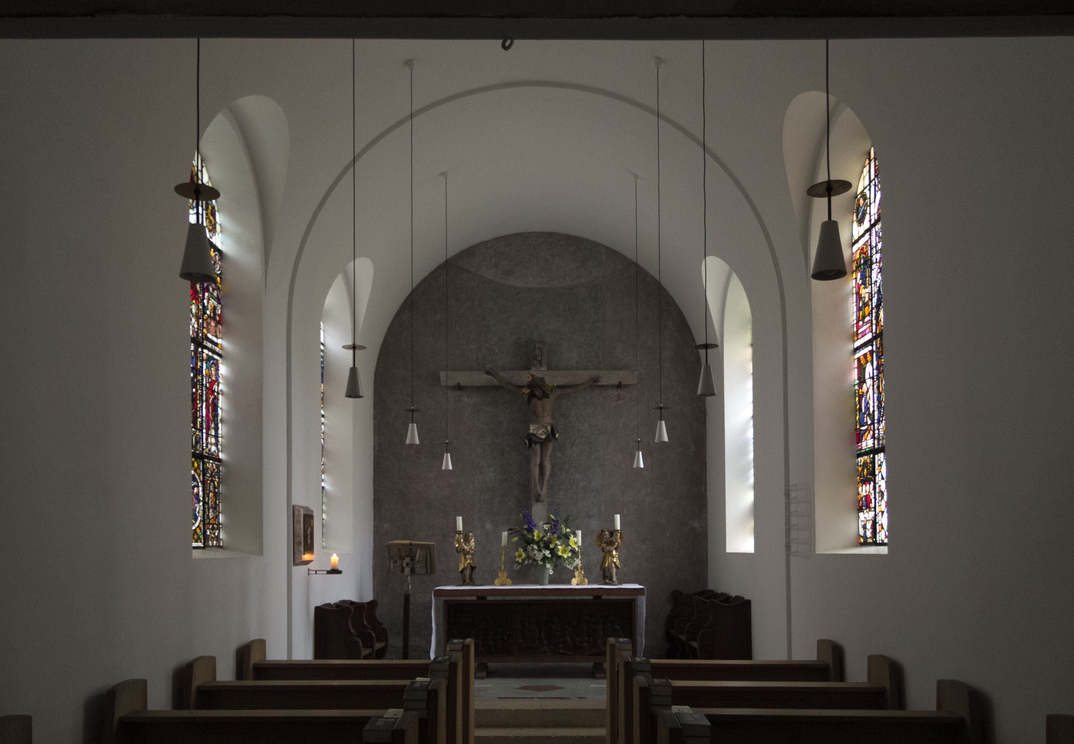 Chapel of the castle of Tutzing.